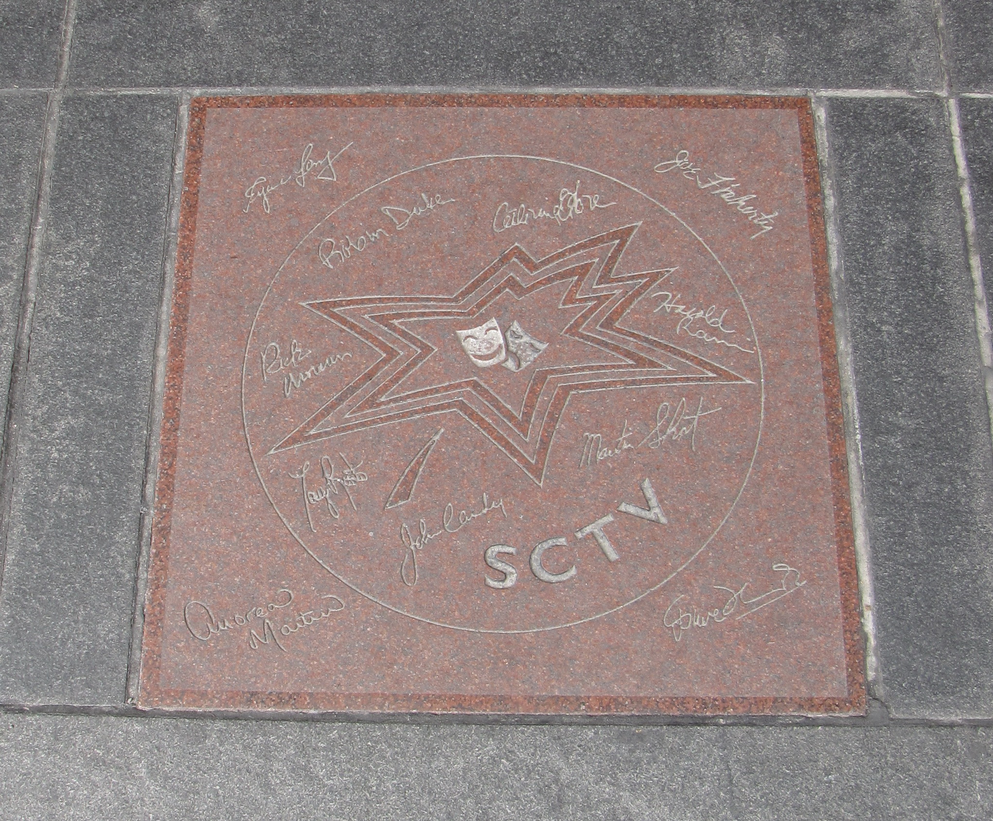 Star on Canada's Walk of Fame for the comedy troupe SCTV. Signatures in inner circle, clockwise from top left: Robin Duke, Catherine O'Hara, Harold Ramis, Martin Short, John Candy, Tony Rosato, and Rick Moranis. In the corners, from top left: Eugene Levy, Joe Flaherty, Dave Thomas, and Andrea Martin